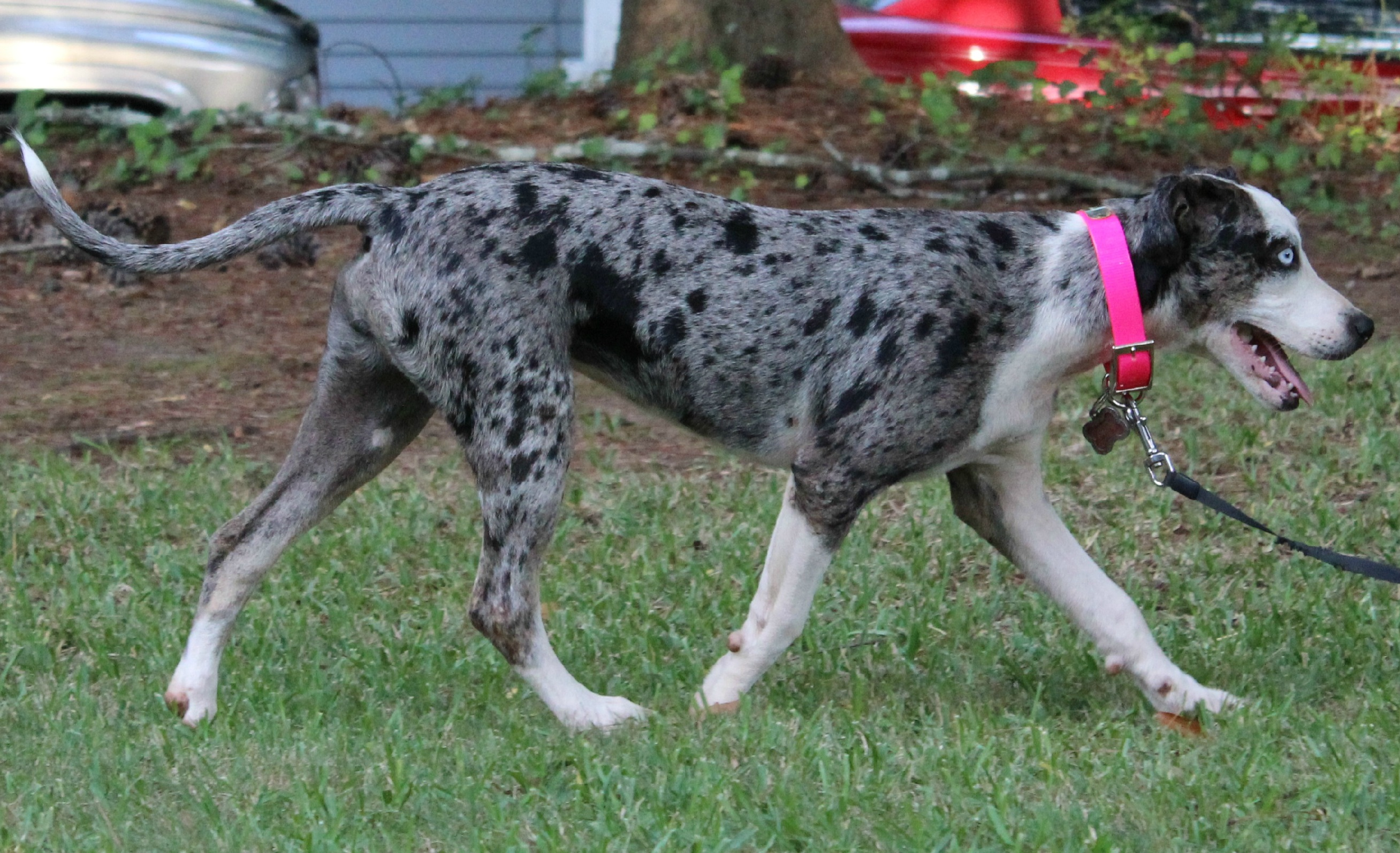 Young blue merle Louisiana Catahoula Leopard Dog